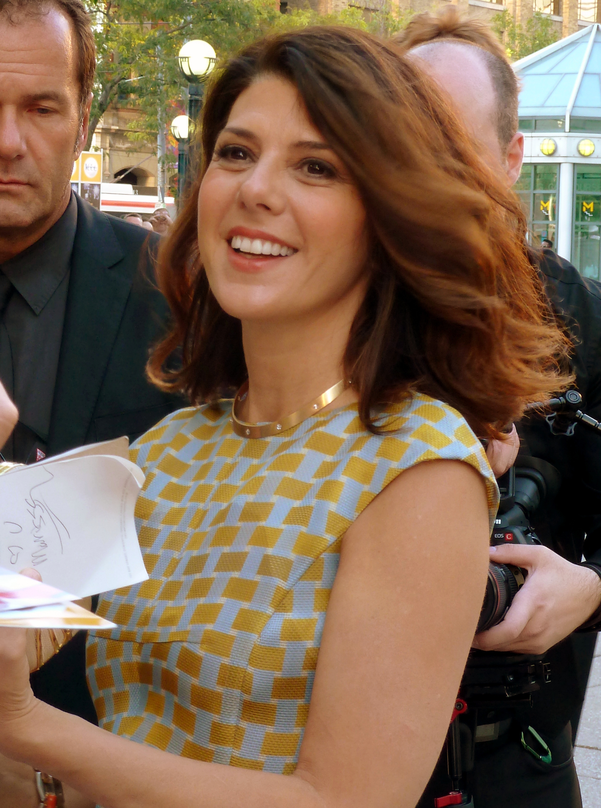 Marisa Tomei at the premiere of Inescapable, in the Toronto Film Festival 2012.